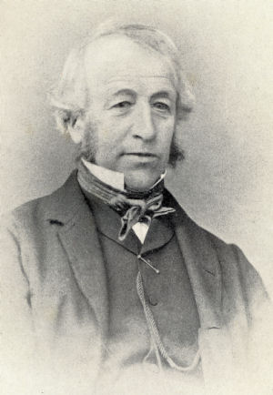 Samuel Lucas artist ... from His Life and Work Places Hitchin By Reginald L. Hine Walkers Quarterly No 27 Published at Walkers Galleries Ltd 118 New Bond Street London W.1.1928